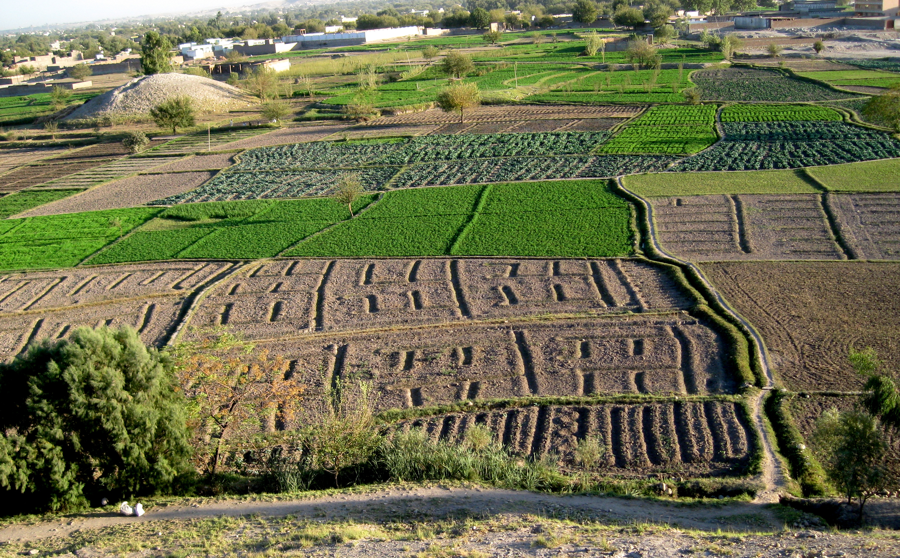 The fields around here are all hand worked, and the irrigation systems have a distinctly fractal pattern. Even more interesting the patterns are cultural, and different groups use different patterning. This is most apparent when flying low over the country. What I'd love to do is get high-resolution satellite imagery of the region and segment it by fractal patterns...